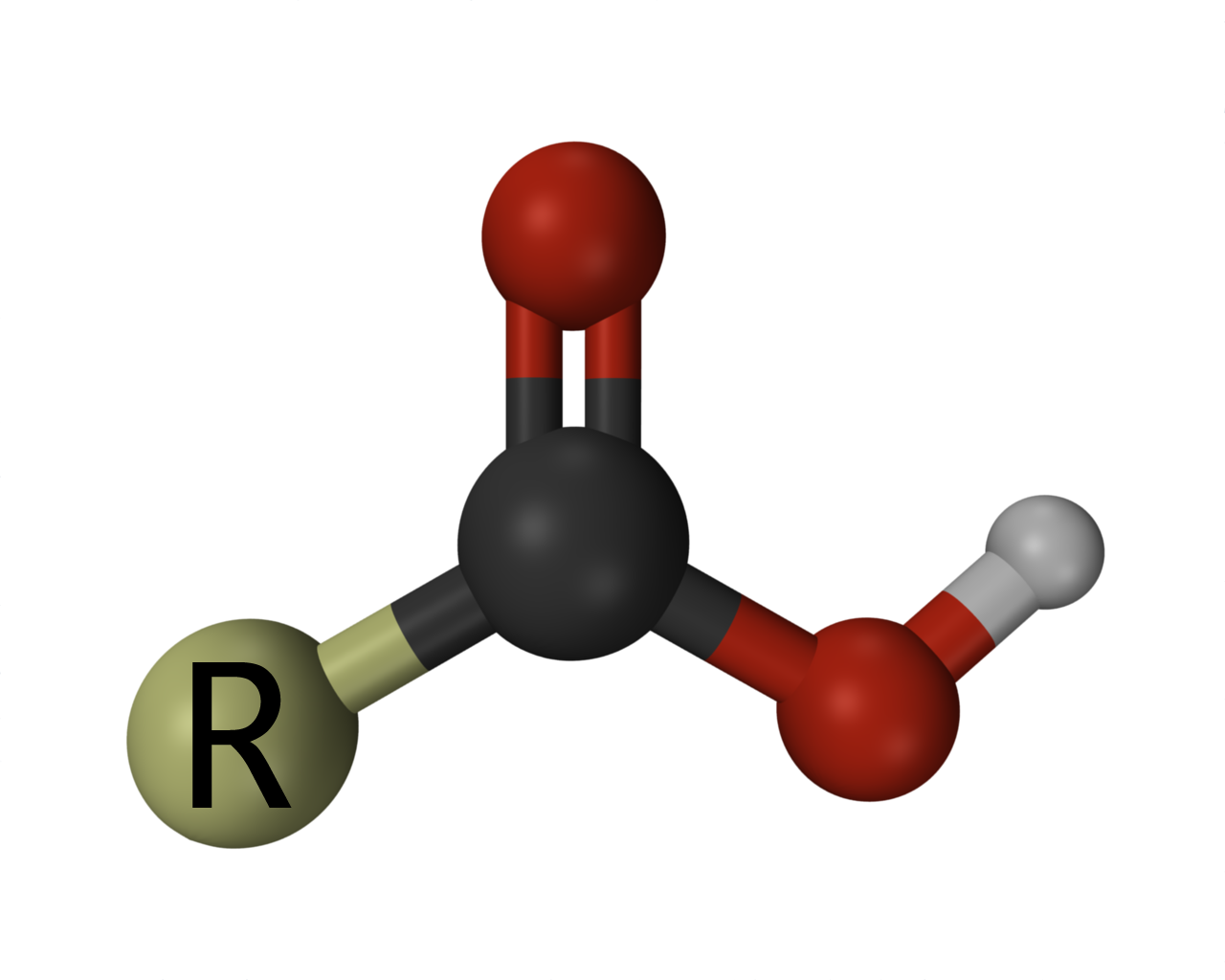 3D model of the more common conformation of the carboxyl group.